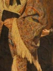 An enlargement of the area of Siân Owen's shawl purported to enshroud the face of the devil.